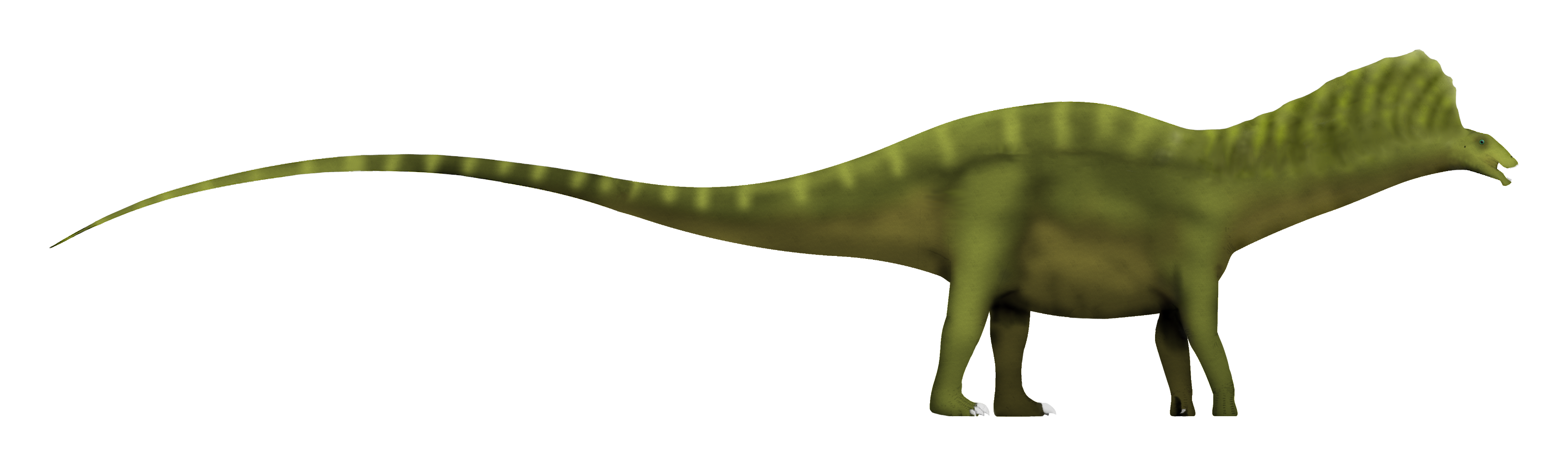 Life restoration of Bajadasaurus pronuspinax. Based on [1] and [2].